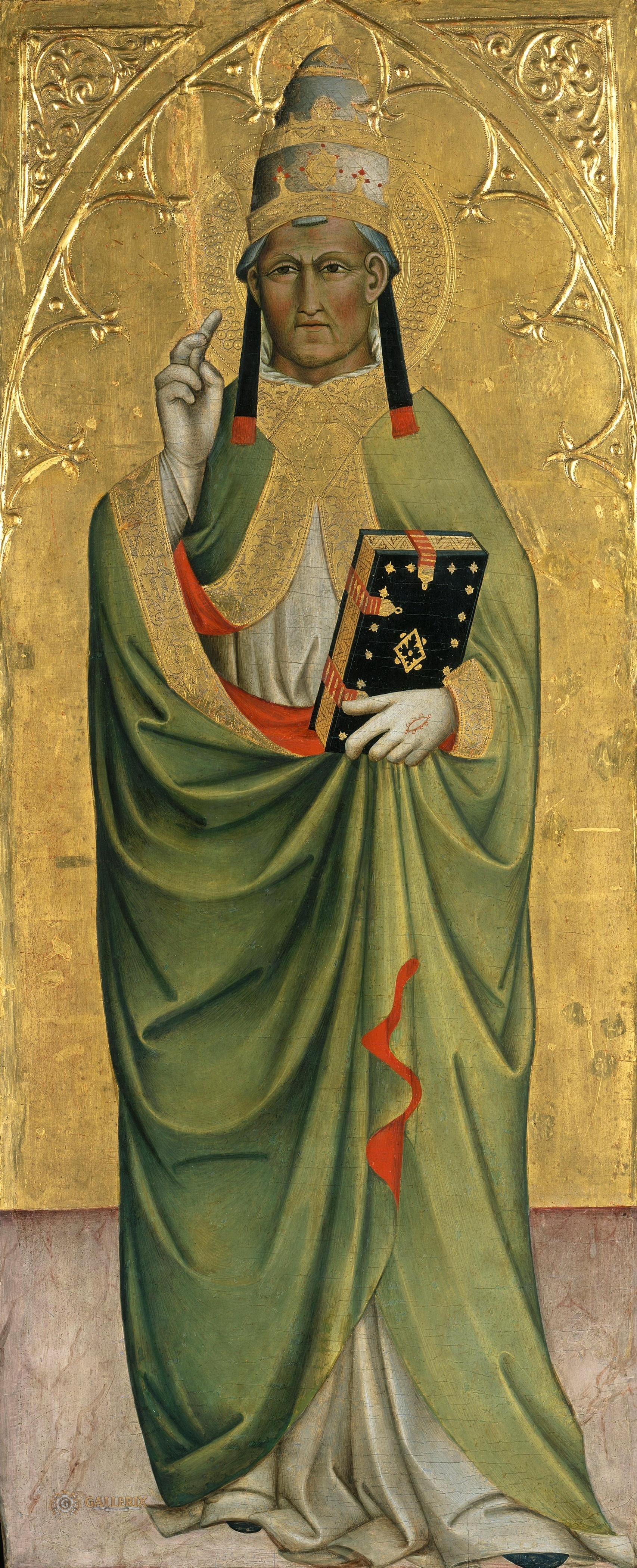 Cennino Cennini, Saint Gregory, ca 1400, Berlin, Staatliche Museen